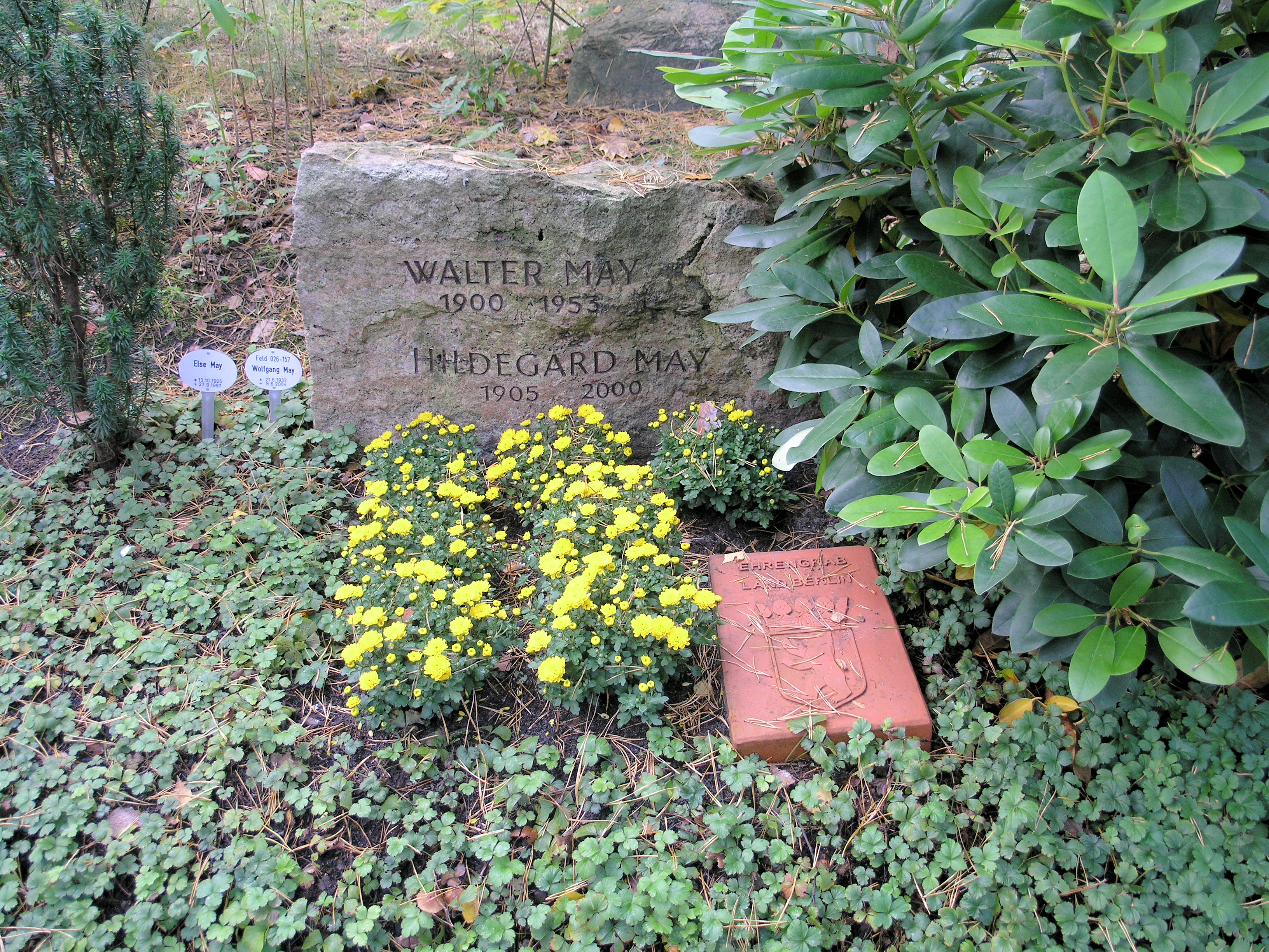 "Ehrengrab" (grave of honor), Walter May, Potsdamer Chaussee 75, Berlin-Nikolassee, Germany Koordinate:52°25′23″N 13°12′38″E / 52.42306°N 13.21056°E